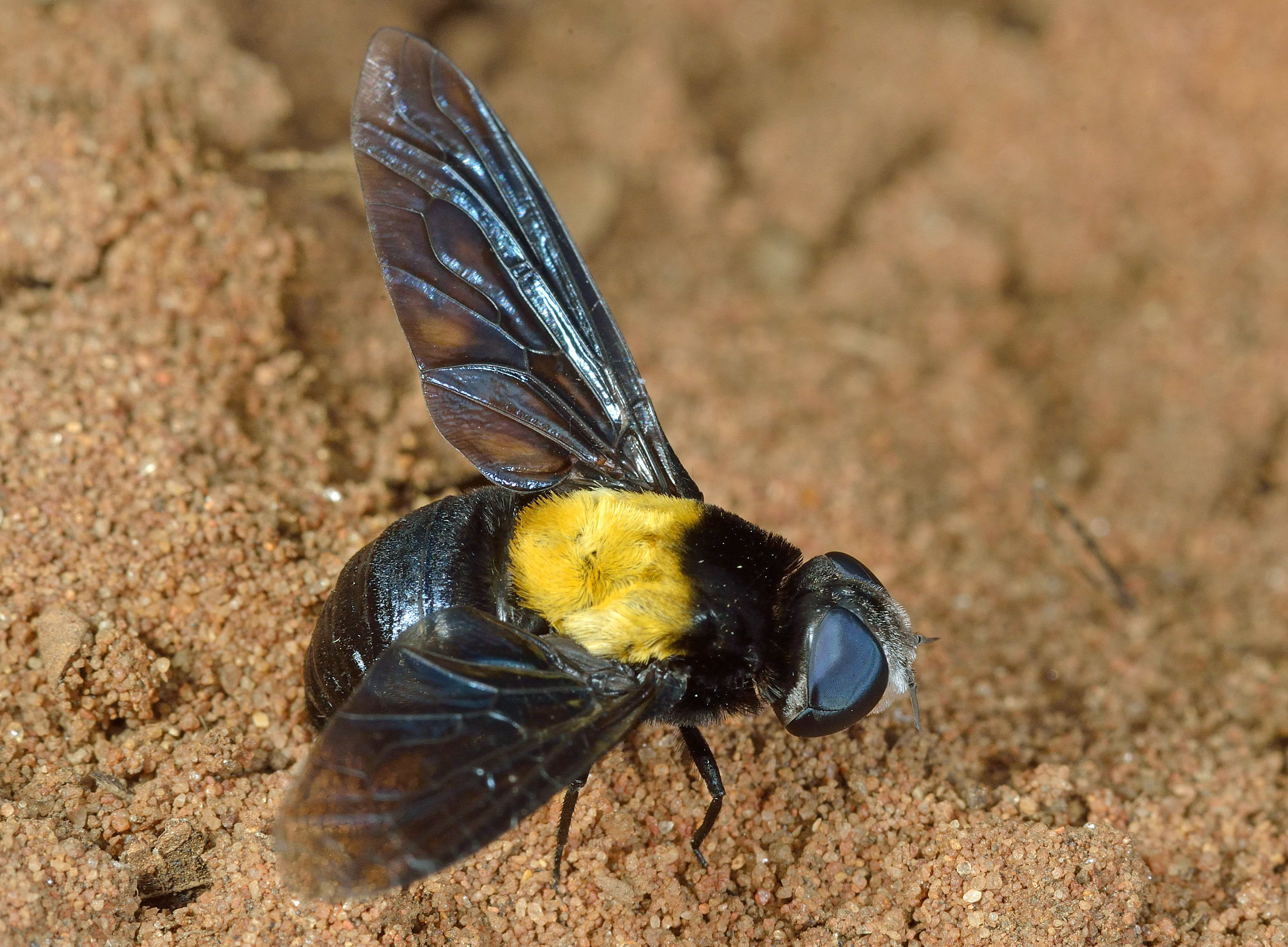 Original caption: "Habitus of female Marleyimyia xylocopae Marshall & Evenhuis, sp. n. from Ndumo Game Preserve, South Africa, 1 December 2014. Fig. 1 derives from Photo no. 7007 (Campground site) and was adjusted for brightness and contrast. Photo: Steve Marshall."